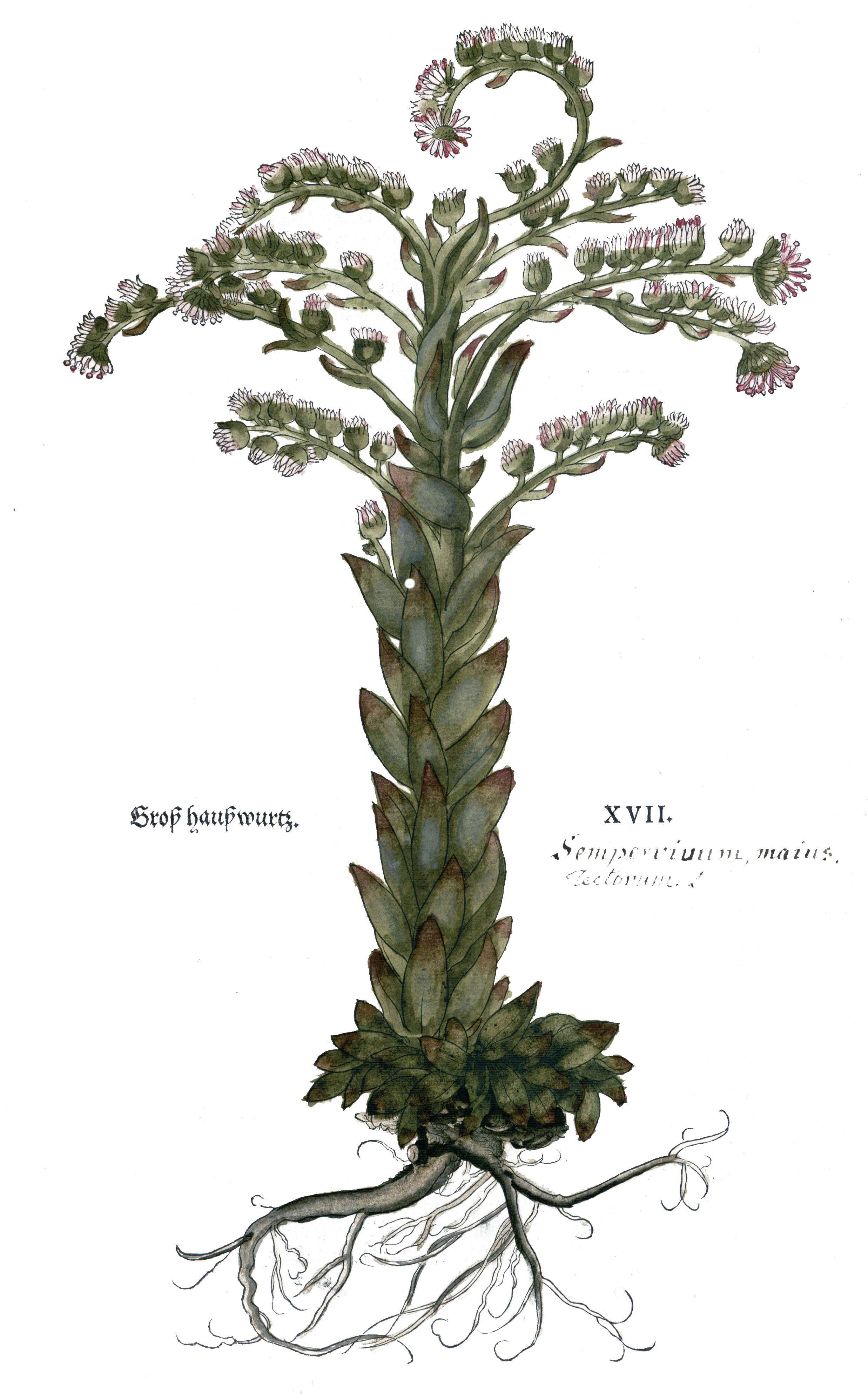 Groß Hauswurtz (Sempervivum tectorum)